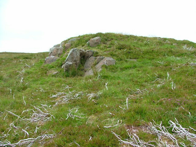 Tigh Talamhain Souterrain On the Kilmaluag moorland at Lachasay